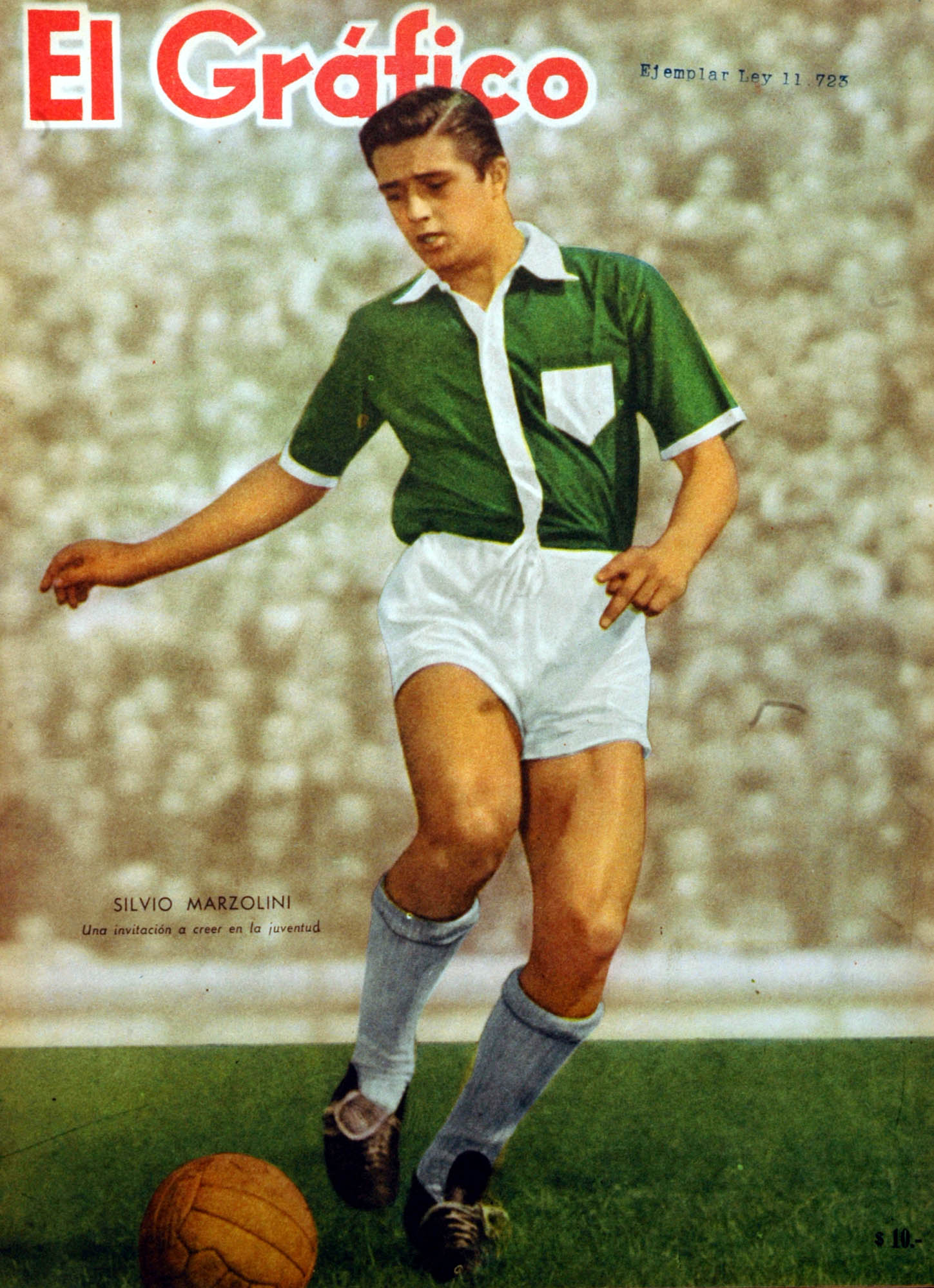 Silvio Marzolini while playing in Ferro C. Oeste.